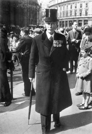 General Sir Alexander Godley in front of the church of St Martin-in-the-Fields for the Anzac Day Memorial Service. London, England. 1948-04-25.